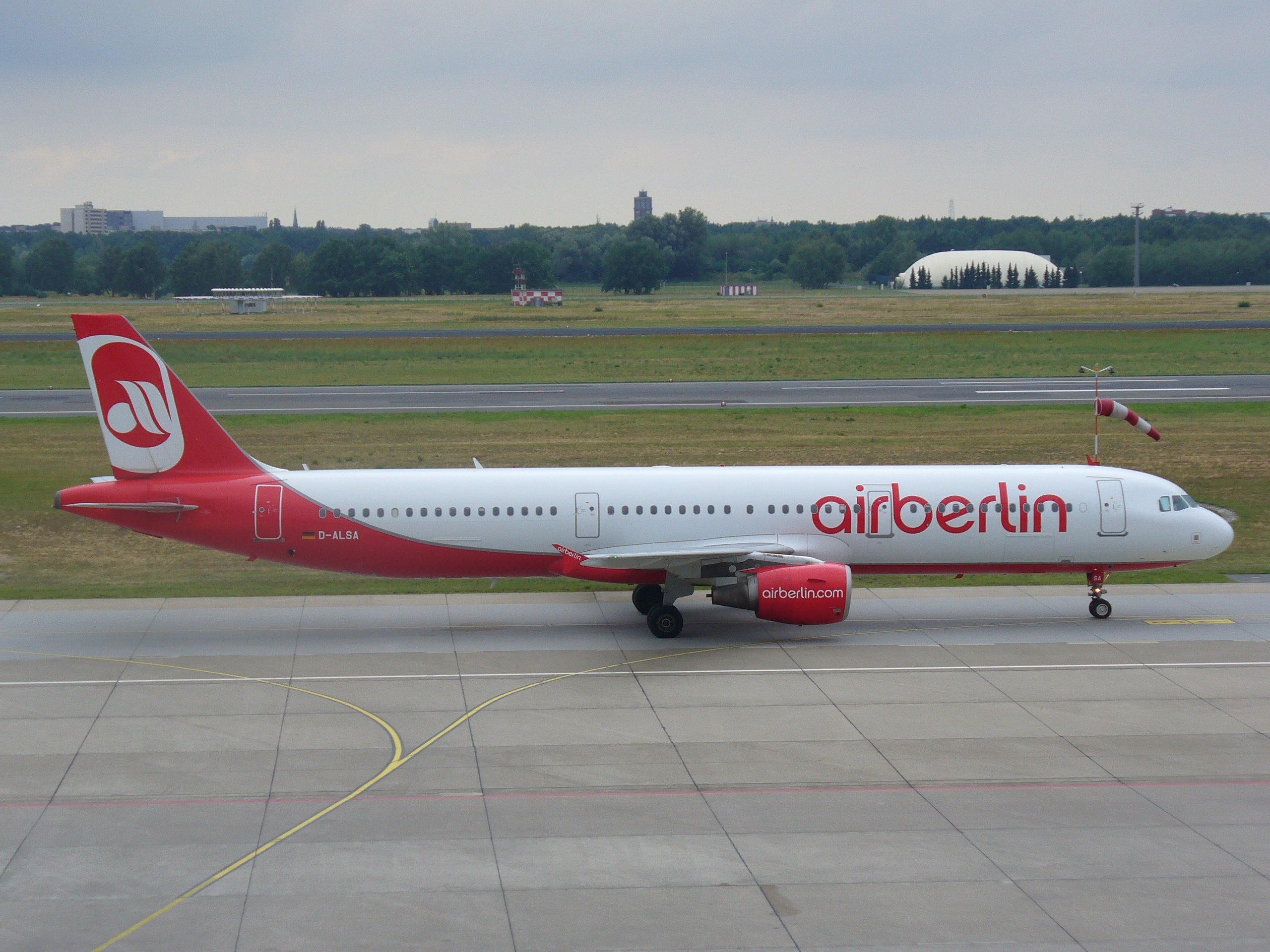 Airbus A321 of Air Berlin at Berlin Tegel Airport